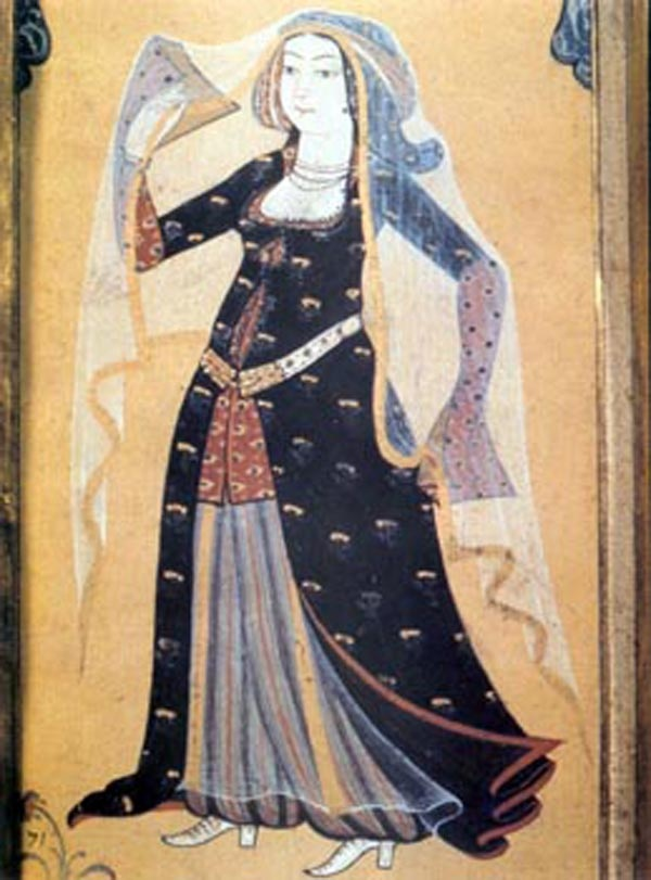 Lady from the Ottoman Palace (Odalık). Ottoman miniature painting, kept at the Topkapı Sarayı Müzesi, Istanbul (Inv. 2164/15b)